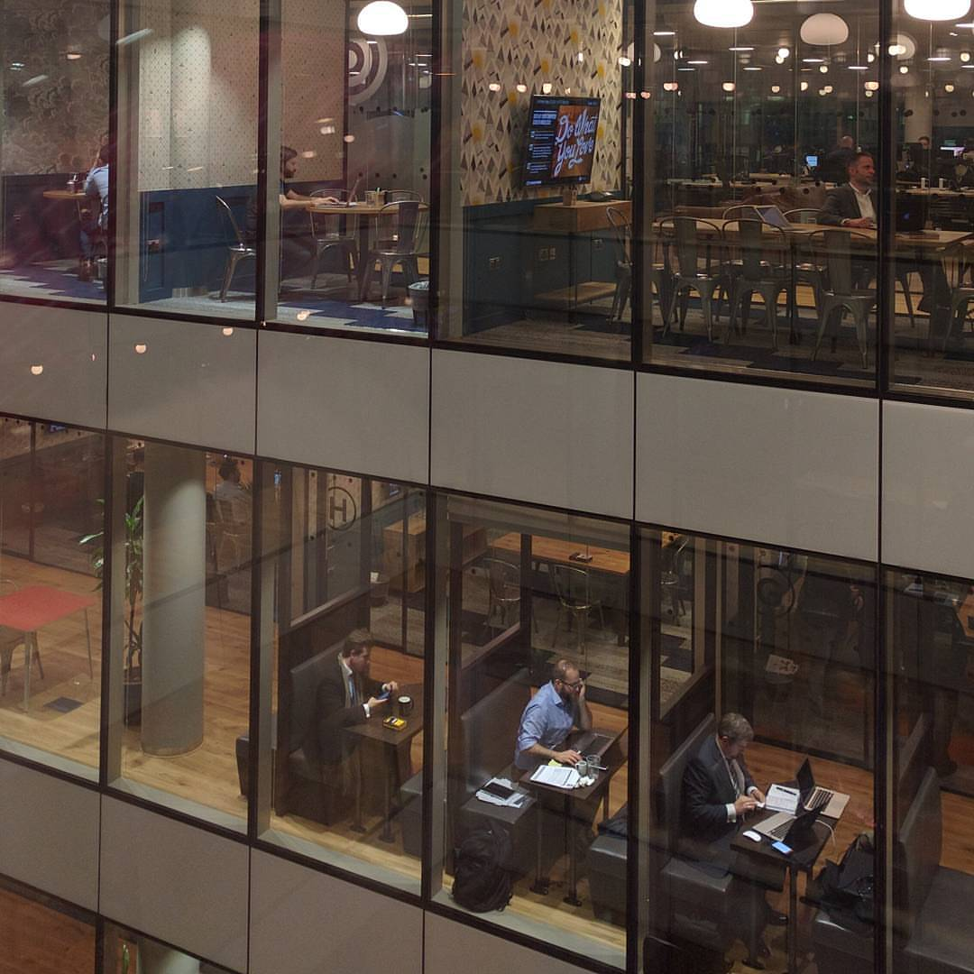 Spot the Skyscanner glass panel. #WeWork #ShotOnAndroid #ShotOnNexus6P